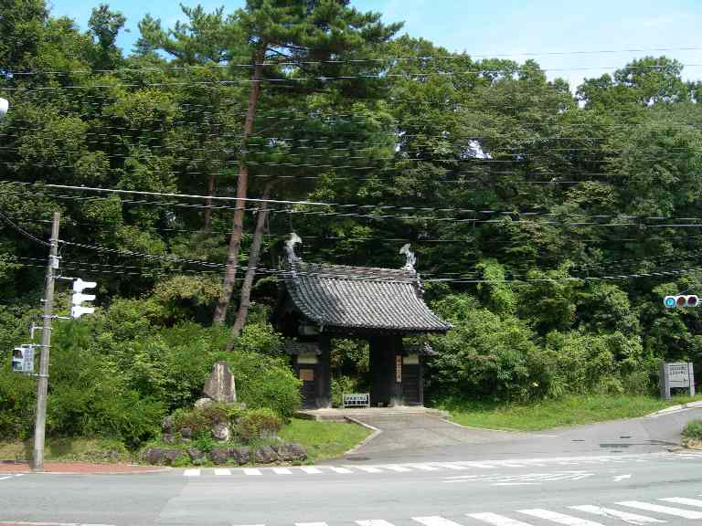 The gate of Jingu-bunko. It was built in 1780 as a gate for House of Onshi and move here in 1935.